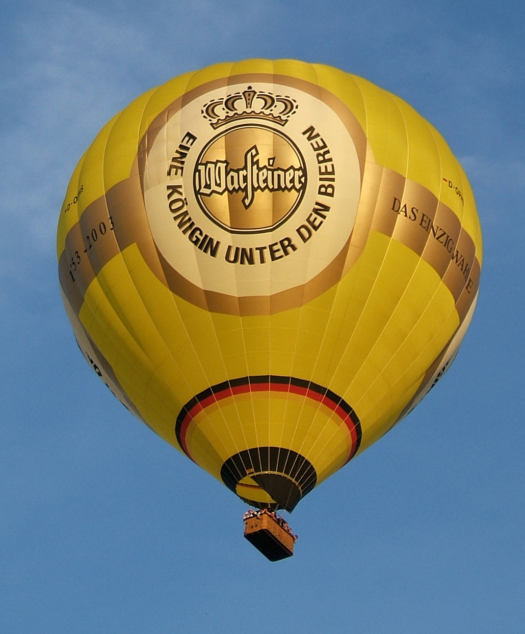 Hot air balloon over Remshalden, Germany.